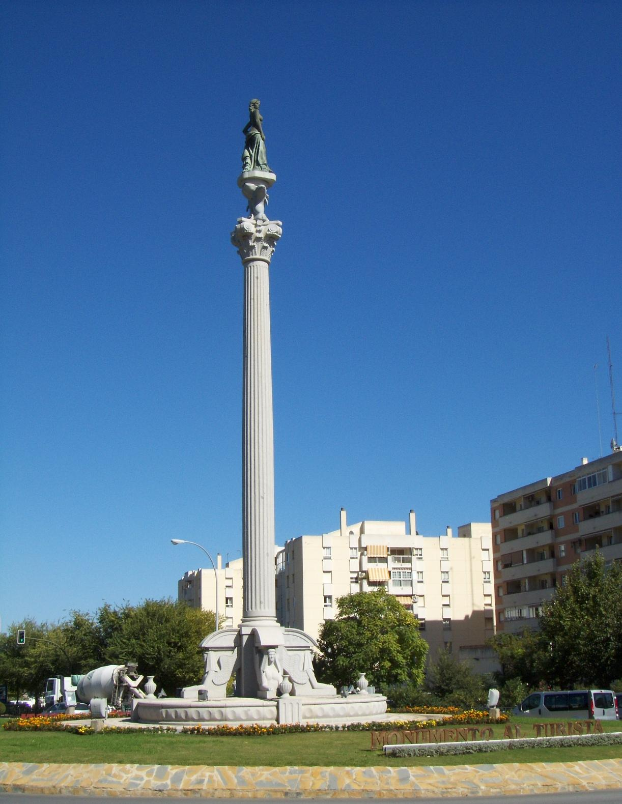 Monument not far from the entrance to the city, Torremolinos, Spain